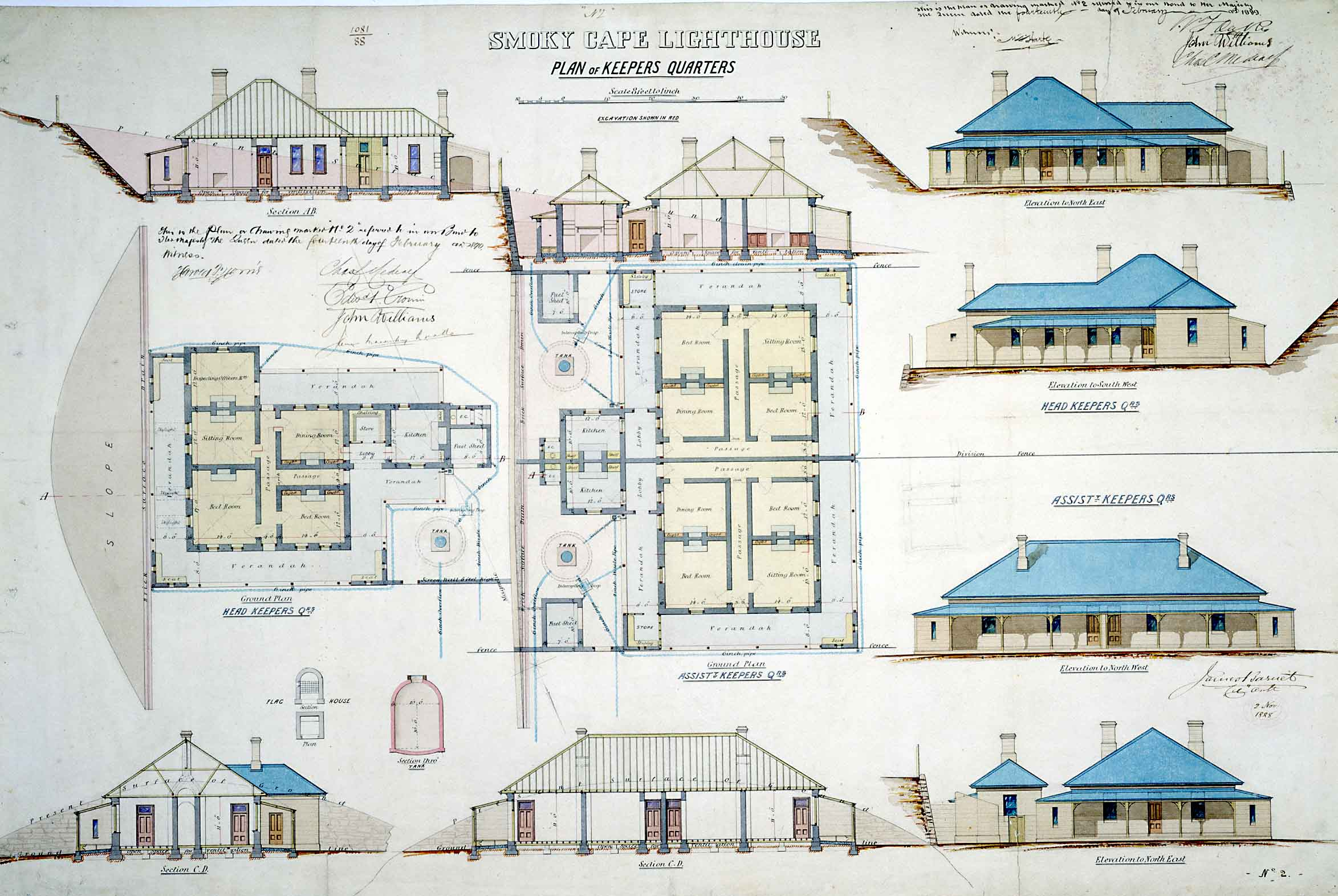 Smoky Cape Light, plan of keepers' quarters, James Barnet - NSW Colonial Architect, 1888